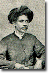 Mosavalsalam